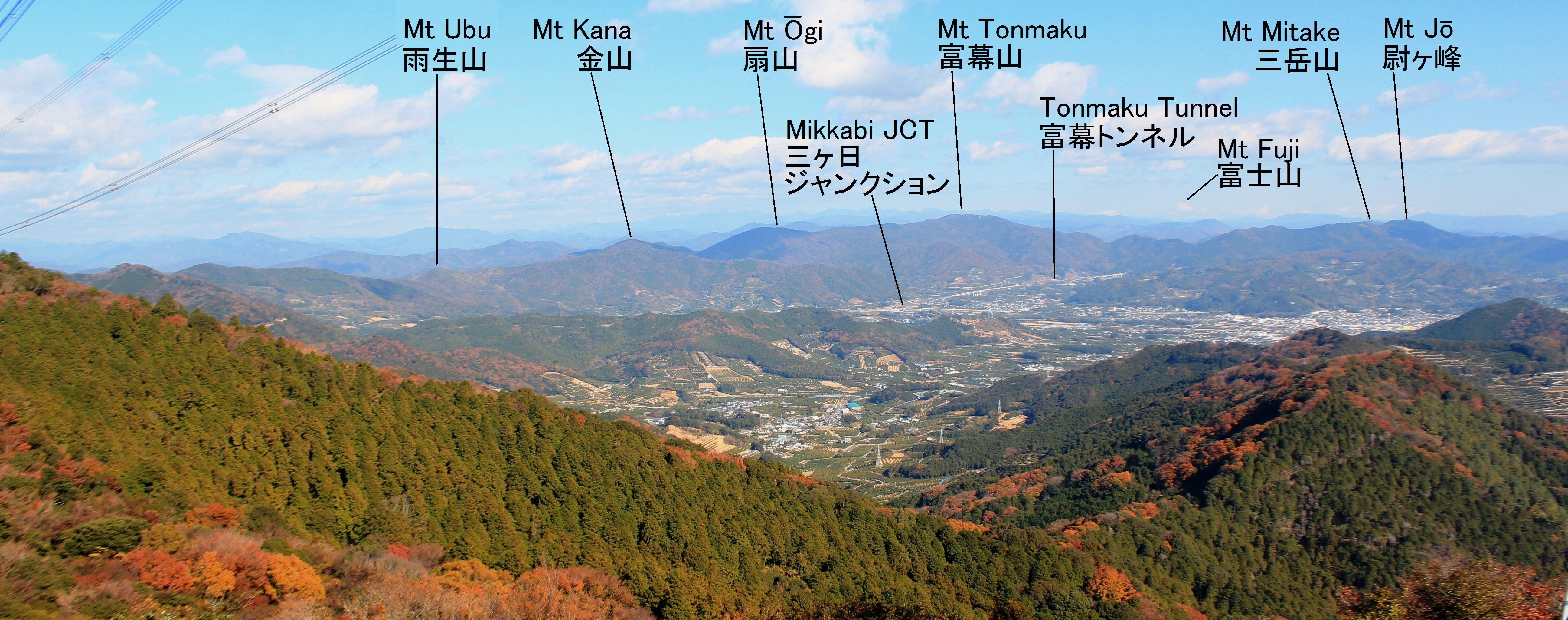 Mount Tonmaku and Mount Jo seen from Fujimiiwain Yumihari Mountains, Shizuoka Prefecture, Japan.